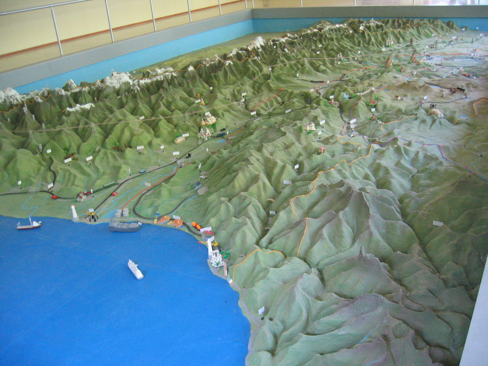 Raised-relief map of Georgia